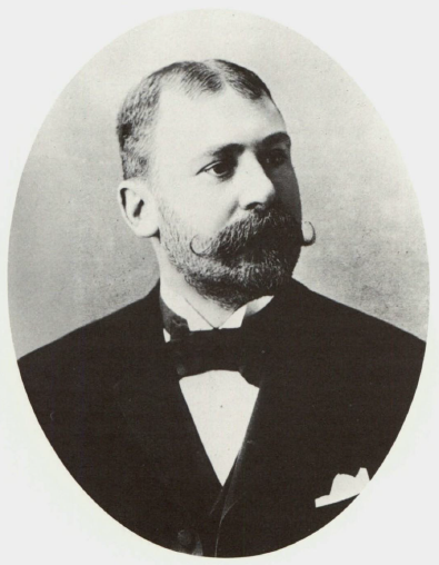 Portrait of Carl von In der Maur